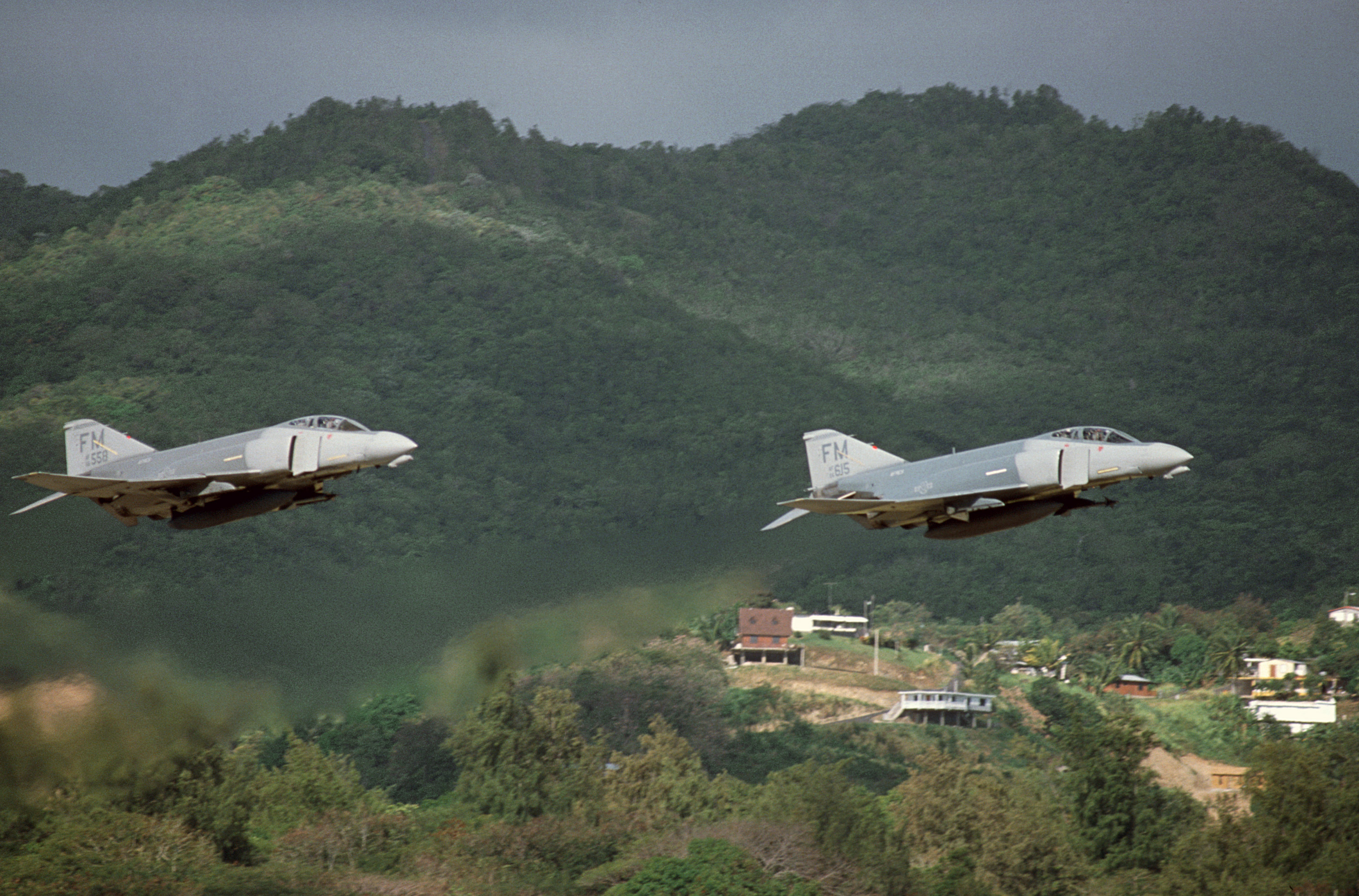 Two U.S. Air Force McDonnell F-4D Phantom II aircraft from the 93rd Tactical Fighter Squadron, 482nd Tactical Fighter Wing, USAF Reserve, taking off from Naval Air Station Roosevelt Roads, Puerto Rico (USA), during the reserve training exercise "Patriot Pearl" on 7 March 1988.